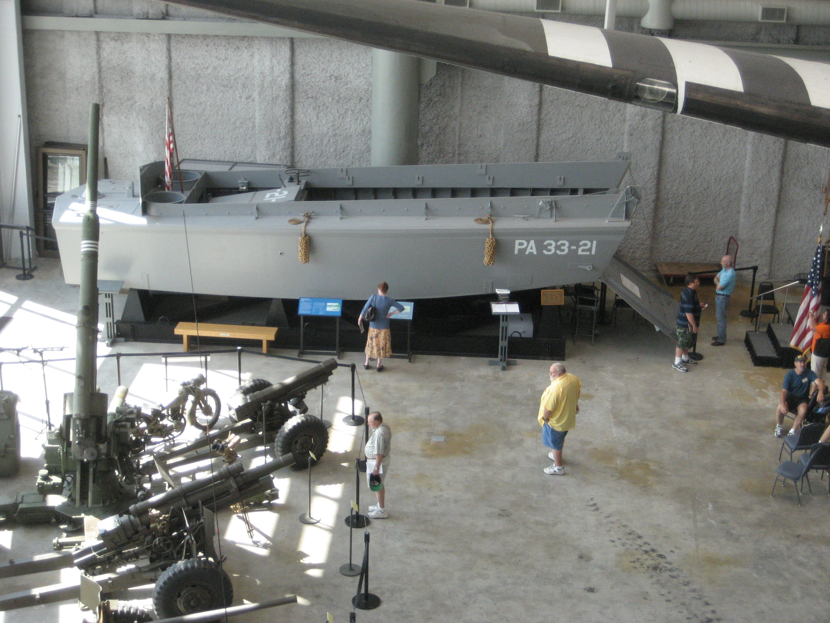 National World War II Museum, New Orleans. Artillery and Higgins Boat.